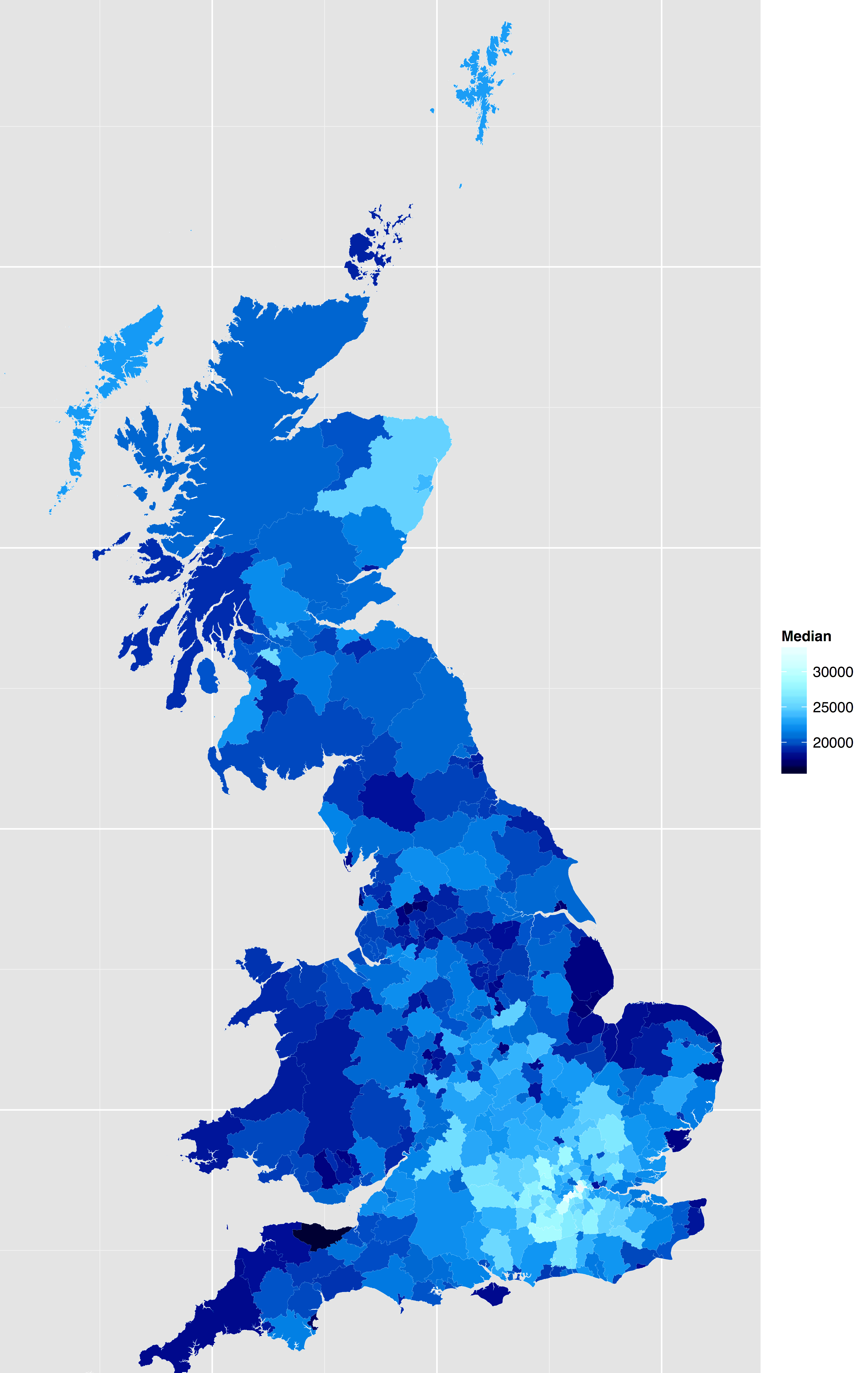 Median UK Income by location Income Data from Households Below Average Income (HBAI) table 3.14 2012/13 ( Shapefile from Office of National Statistics (Local_authority_district_(GB)_2014_Boundaries_(Generalised_Clipped)) (